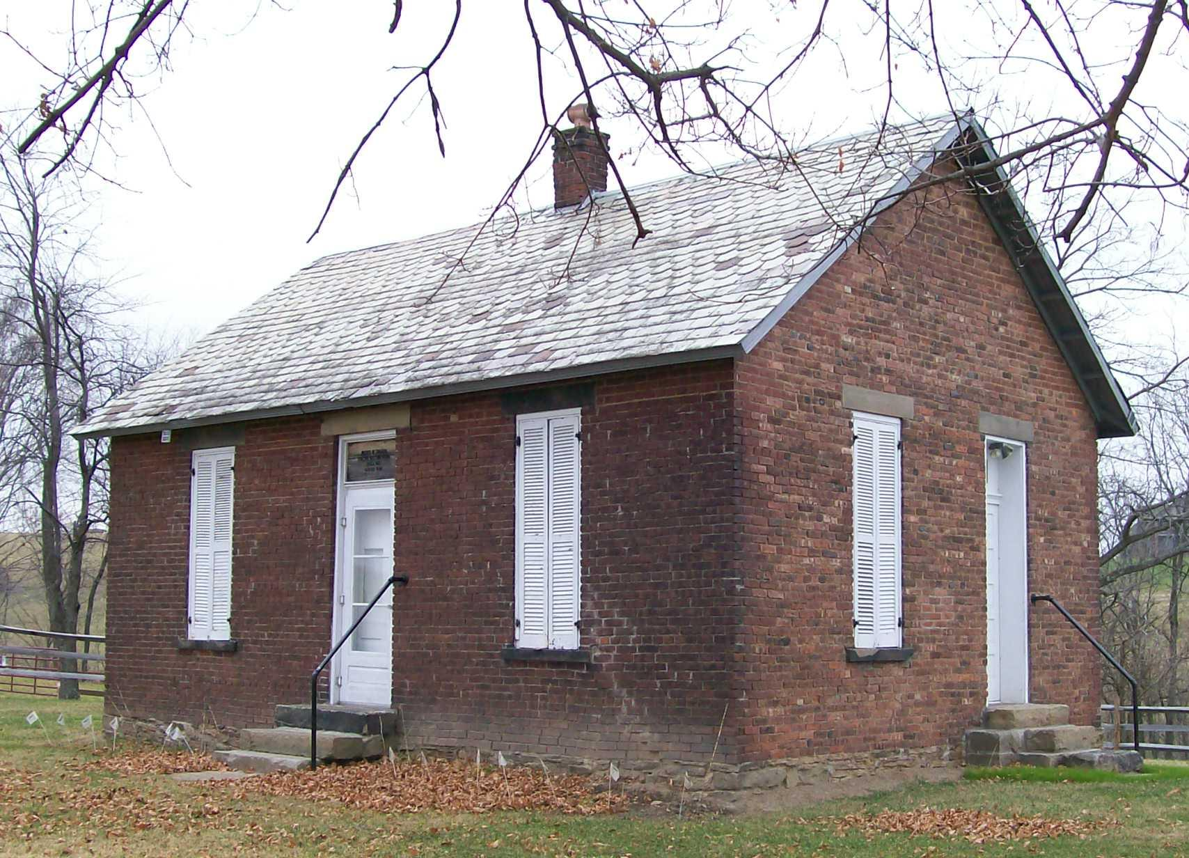 The Concord Hicksite Friends Meetinghouse near Colerain, Ohio.